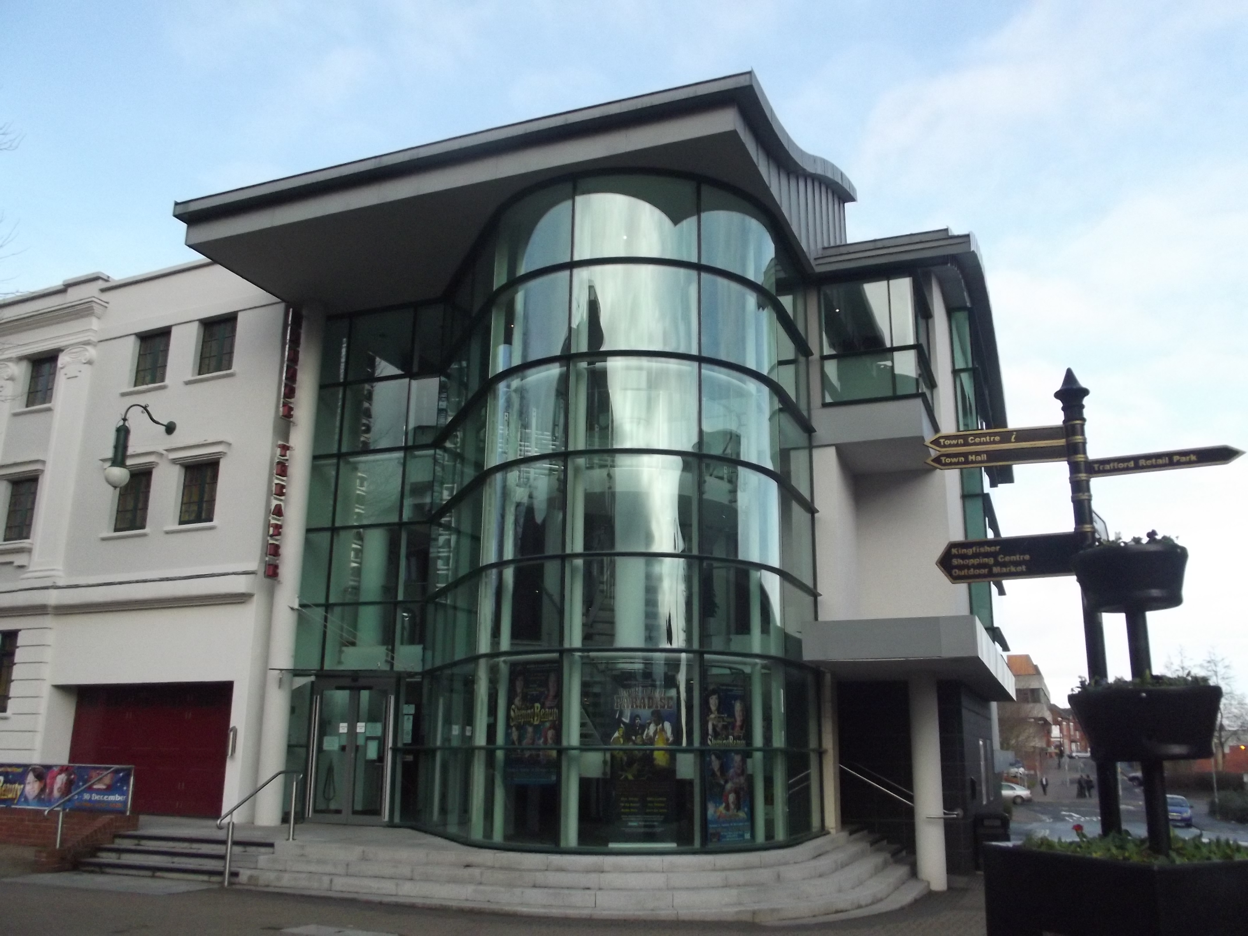 The Palace Theatre on Alcester Street in Redditch. Also it's modern extension going up Grove Street. The original part of the theatre is Grade II listed.